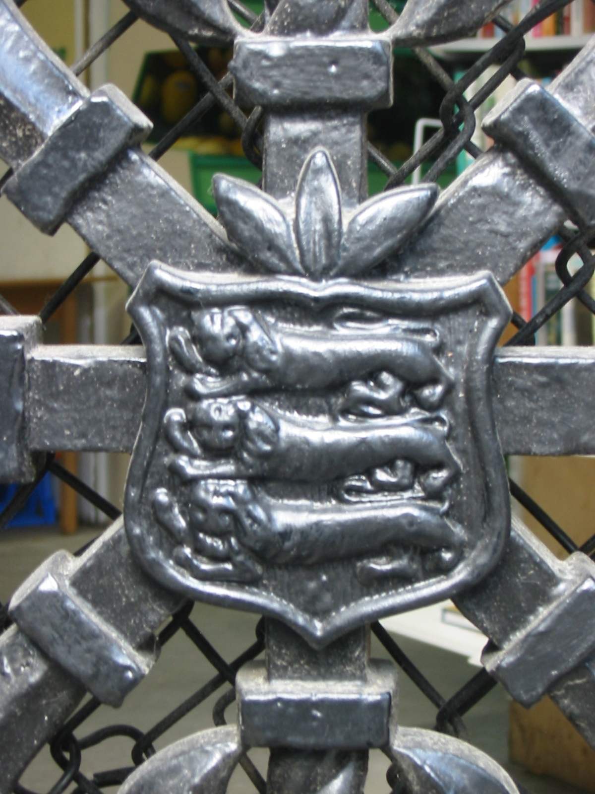 Arms of Guernsey in iron gates of Market in St. Peter Port